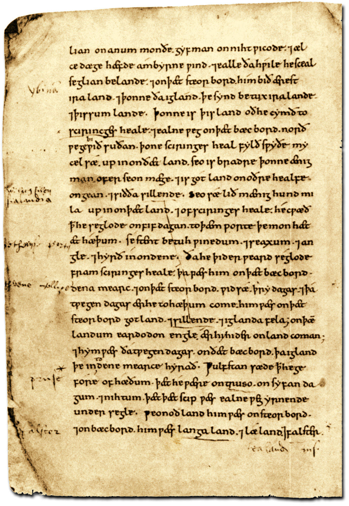 Page from British Library MS Cotton Tiberius B.i, the Old English version of Orosius' Seven Books of History Against the Pagans, early 11th century. The Old English Orosius survives in only two copies, the other (British Library MS Additional 47967) dating from the late-9th or early-10th century. The text in the earlier copy includes the first recorded written mention of the term "Denmark" (dena mearc), possibly the first mention of the term "Norway" (norðweg), and the name of a southern Norwegian "port", Sciringes heal.